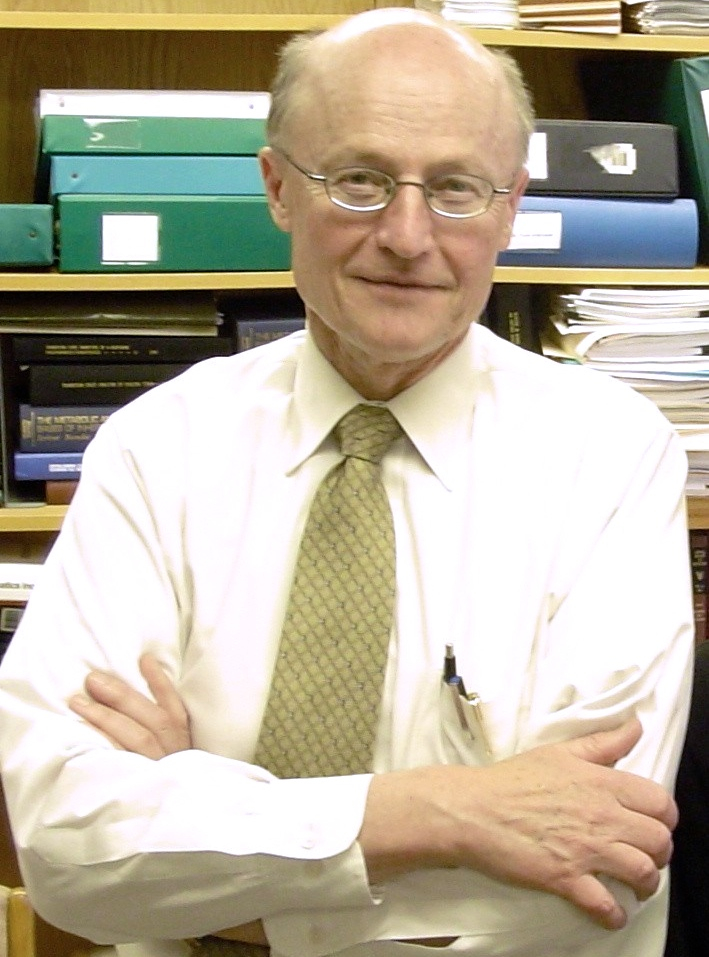 Prof. Schramm in his office at the Albert Einstein College of Medicine, April 2004.